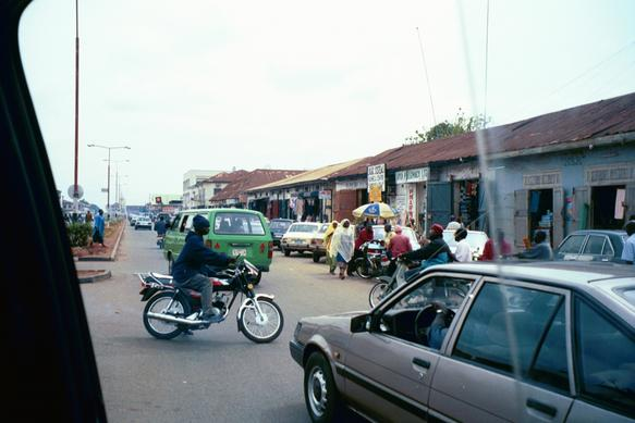 Downtown of Jos, Nigeria